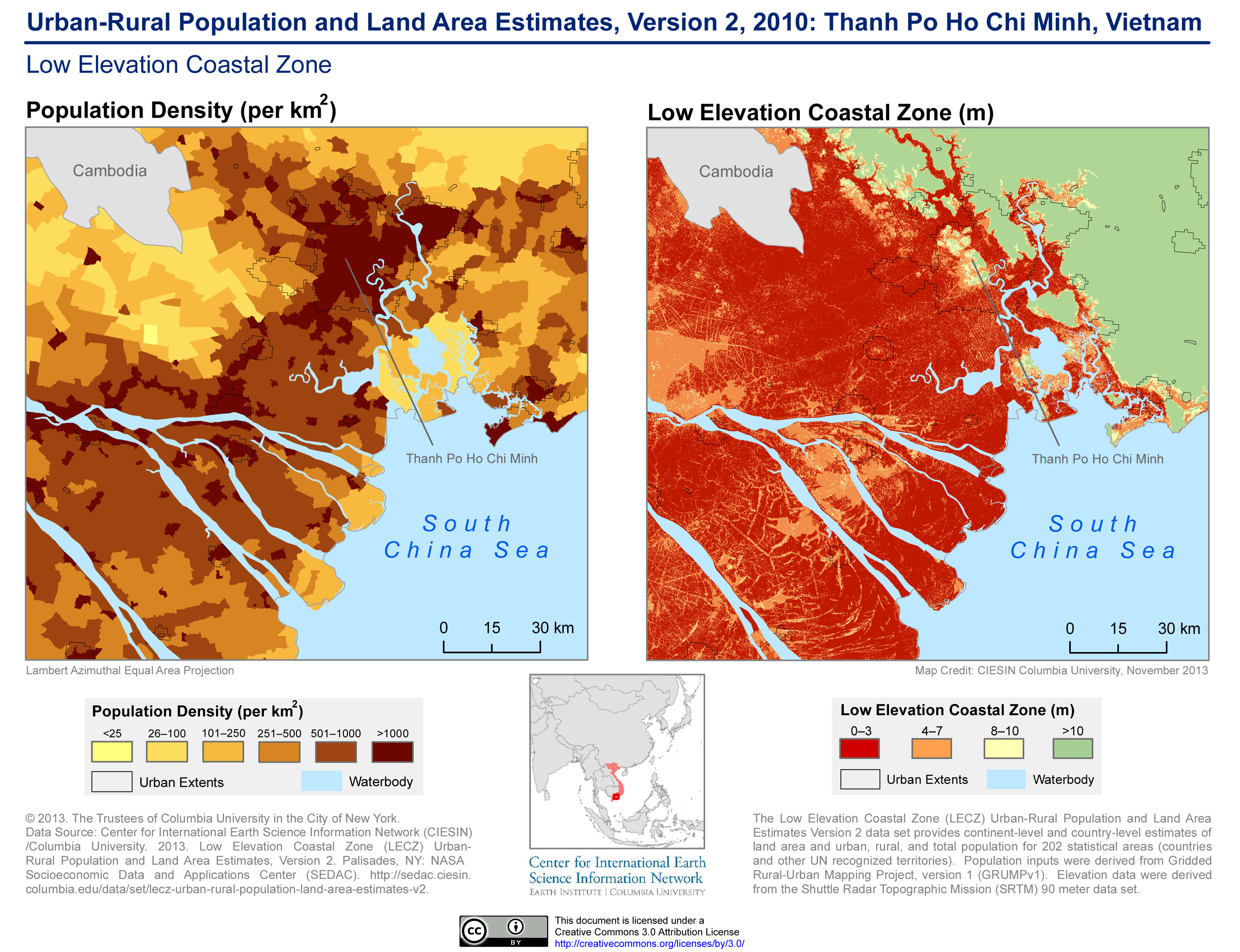 The Low Elevation Coastal Zone (LECZ) Urban-Rural Population and Land Area Estimates Version 2 dataset provides continent-level and country-level estimates of land area and urban, rural, and total population for 202 statistical areas (countries and other UN recognized territories). Population inputs were derived from Gridded Rural-Urban Mapping Project, Version 1 (GRUMPv1). Elevation data were derived from the Shuttle Radar Topographic Mission (SRTM) 90 meter dataset.